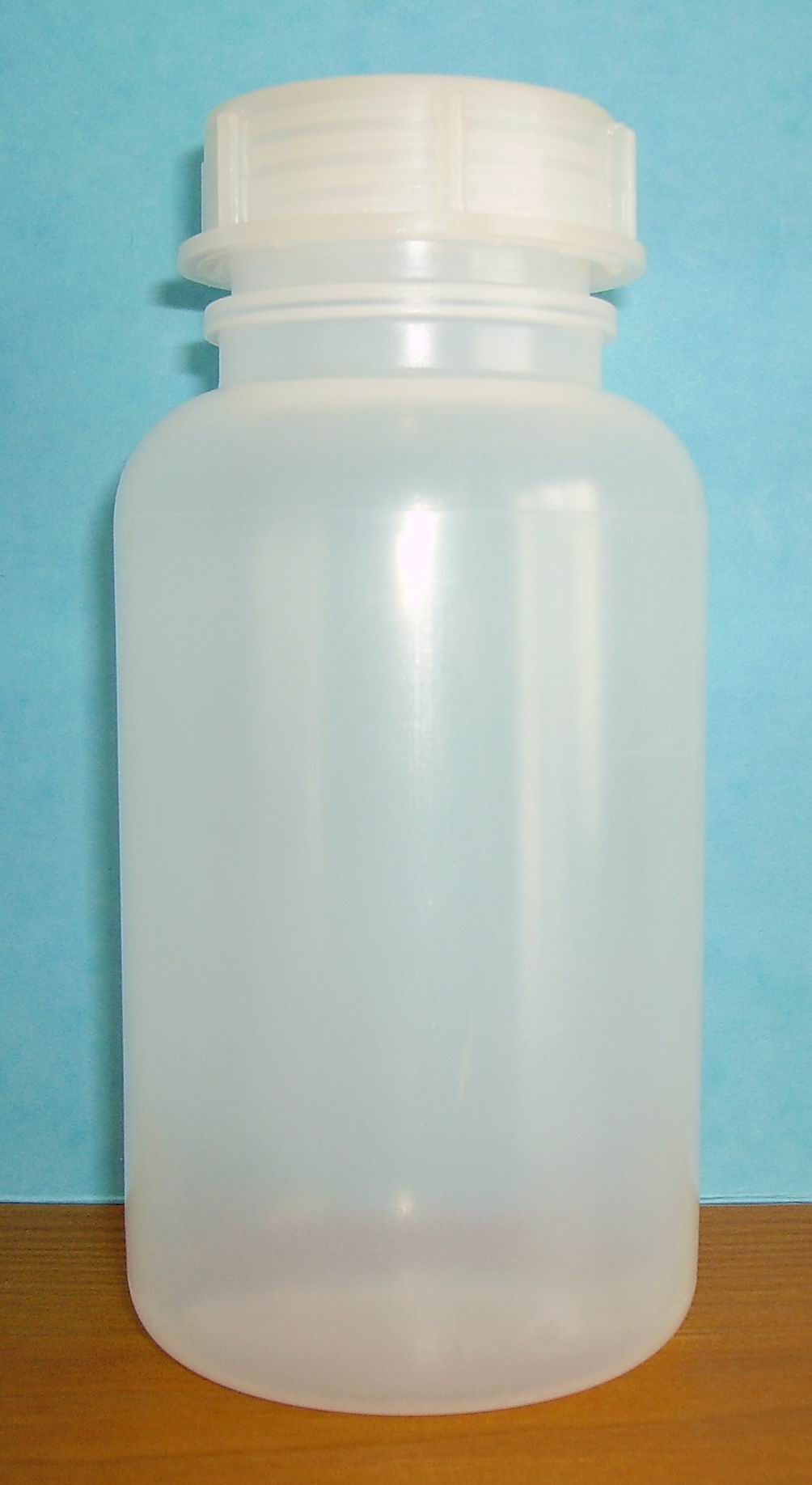 500 mL laboratory round bottle with wide opening whose body is made of LDPE.